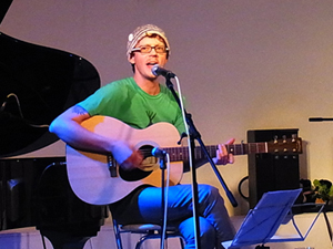 Johan Christher Schutz live at Tokyo Strobe 20110805